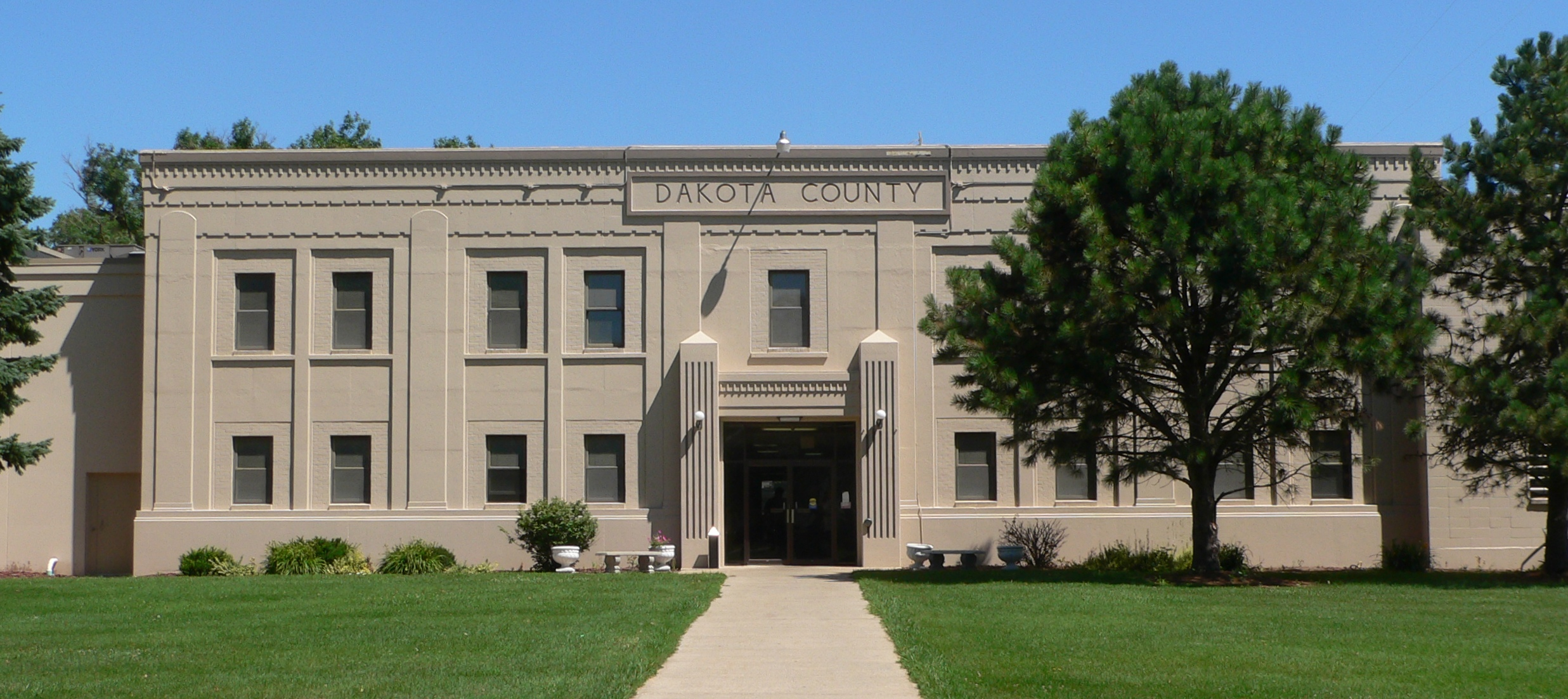 Central portion of Dakota County courthouse in Dakota City, Nebraska; seen from the south. The Art Deco central section of the courthouse was built in 1940-41; additions have since been built on both the east and west sides.